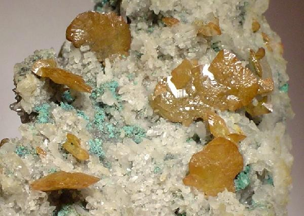 Wulfenite, Devilline, Serpierite Locality: Tsumeb Mine (Tsumcorp Mine), Tsumeb, Otjikoto (Oshikoto) Region, Namibia (Locality at ) Size: 8.7 x 5.0 x 4.0 cm. A EXCELLENT and AESTHETIC, OLD-TIME Tsumeb specimen of lustrous, caramel-colored wulfenites attractively set on contrasting quartz needle-covered matrix and FURTHER enhanced by the blue-green copper sulfate oxidation minerals devilline and serpierite. ALL of the major wulfenites are PRISTINE and the large complex crystal is 1.4 cm. The old, 1970s or early 1980s, dealer label misidentifies devilline and serpierite as rosasite.